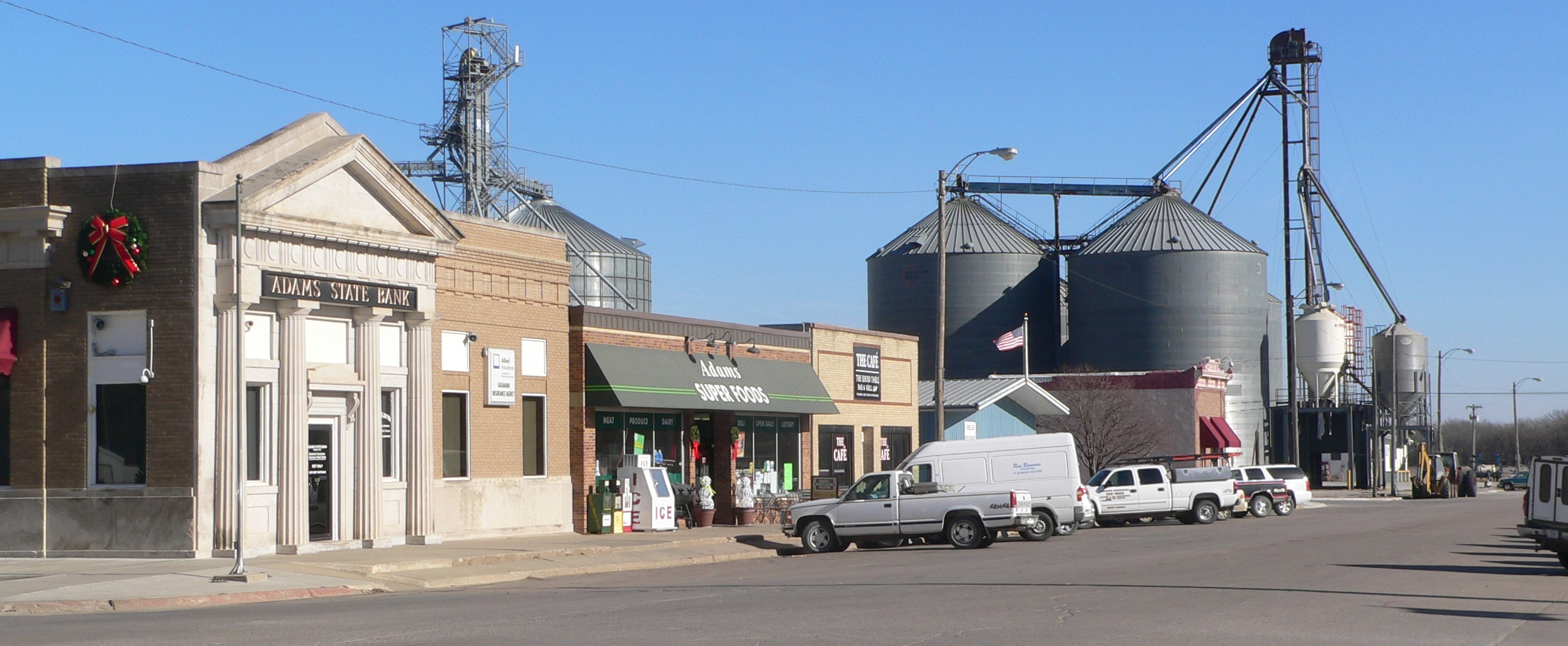 Downtown Adams, Nebraska: north side of Main Street. Camera is facing northeast.